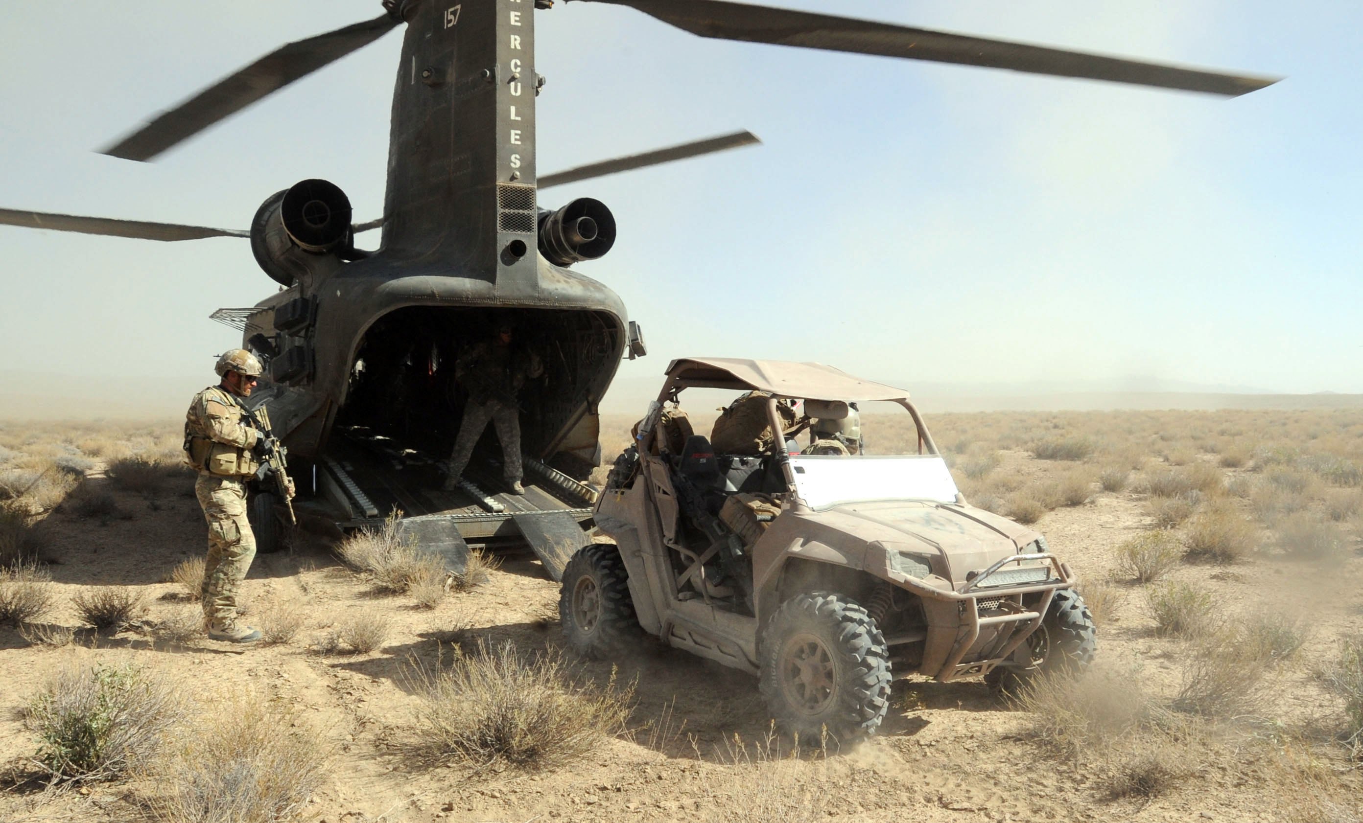 Soldiers with Special Operations Task Force - South prepare to load a Polaris RZR 800 all-terrain vehicle on to a CH-47 Chinook helicopter in preparation for a rapid offload during operations on 1 October 2010 in the Maruf District, Kandahar Province, Afghanistan.